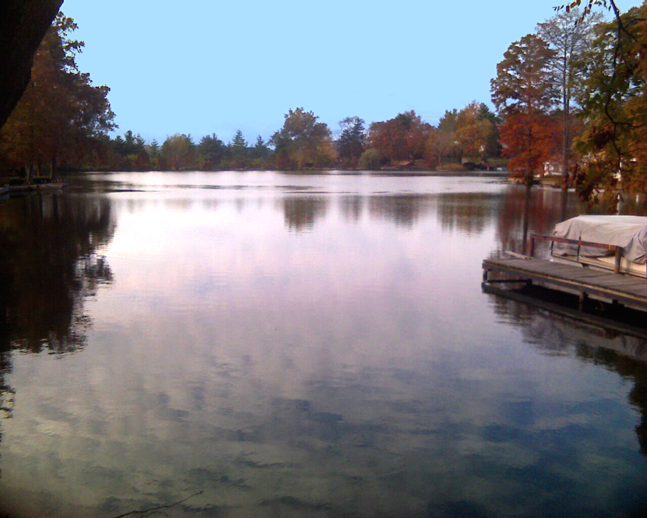 View of Lake Sherwood from southeast shore, Overland, MO